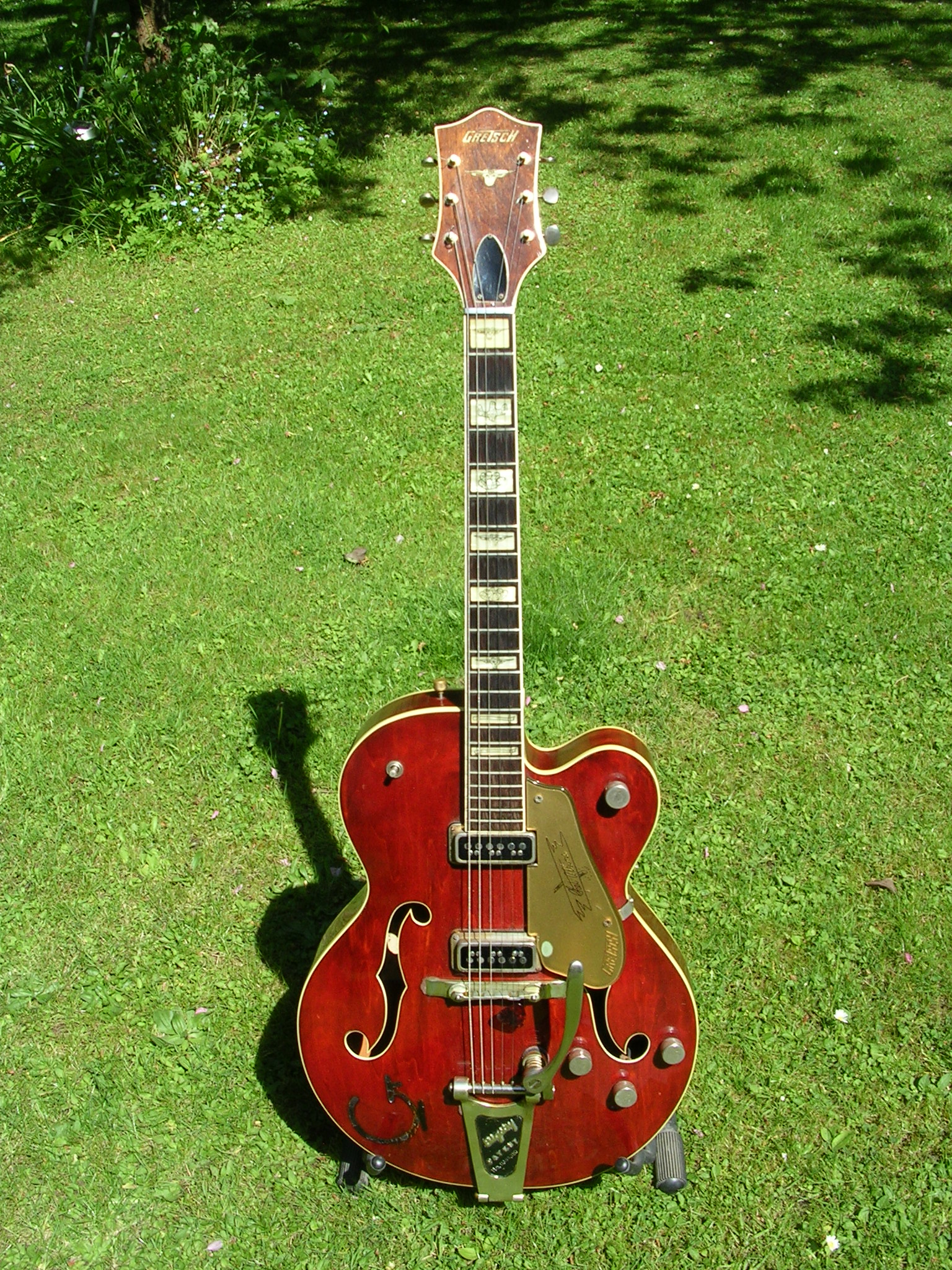 Gretsch 6120 Guitar